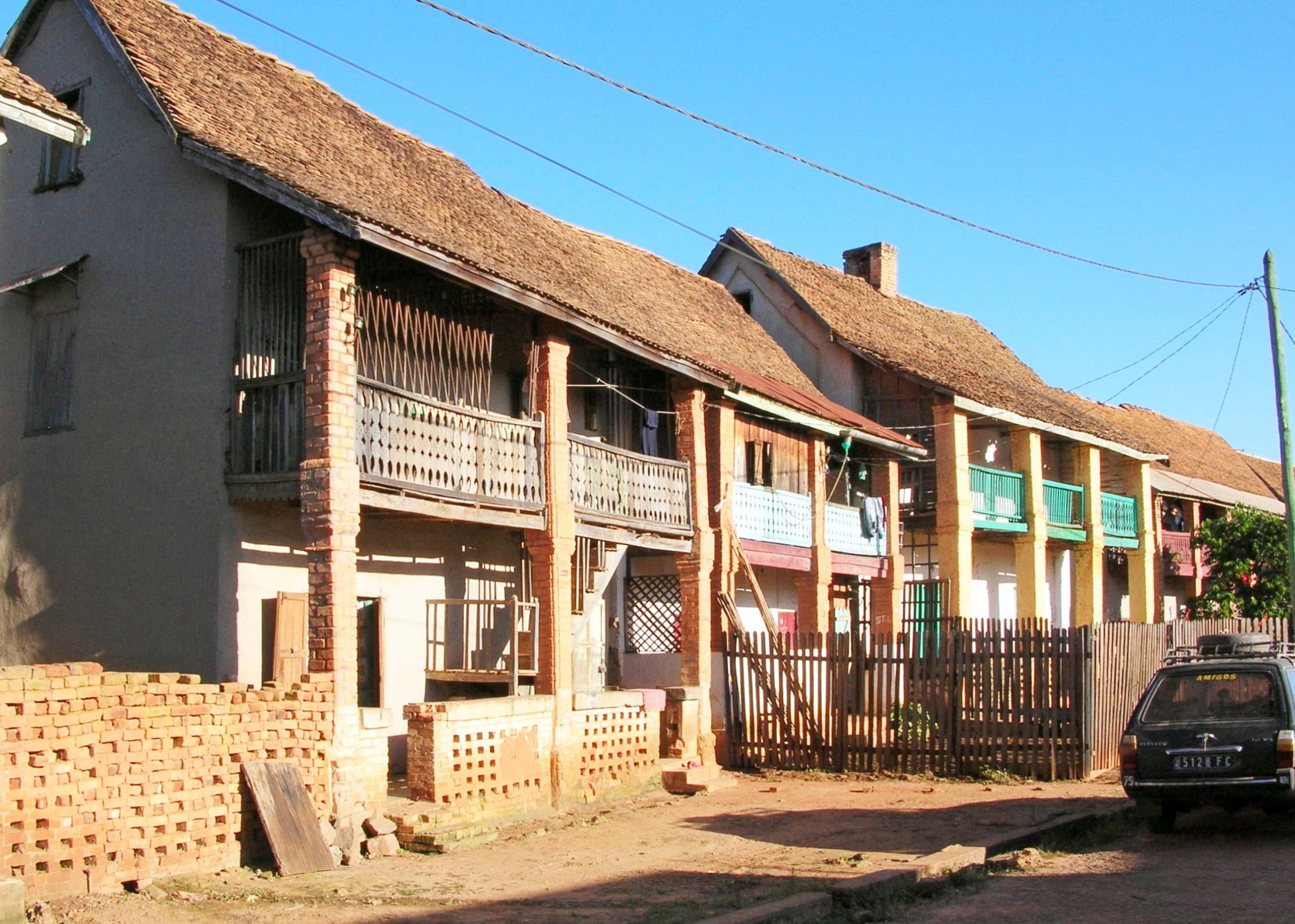 Ambalavao houses, Madagascar